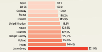 Basque economy